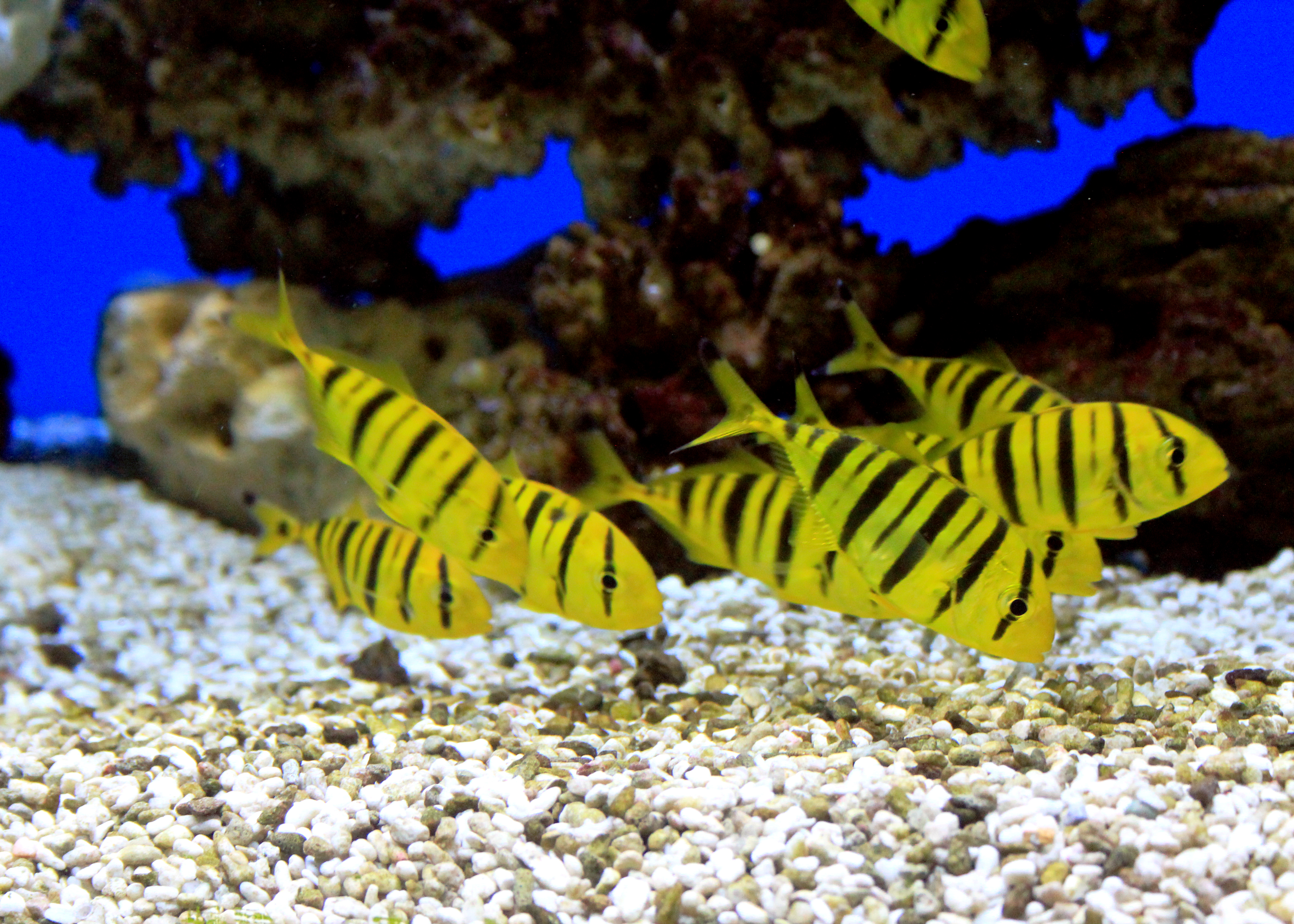 Fish Golden trevally (Gnathanodon speciosus) in Prague sea aquarium “Sea world”, Czech Republic Česky: Ryba kranas zlatý Gnathanodon speciosus v pražském mořském akváriu Mořský svět v Holešovicích